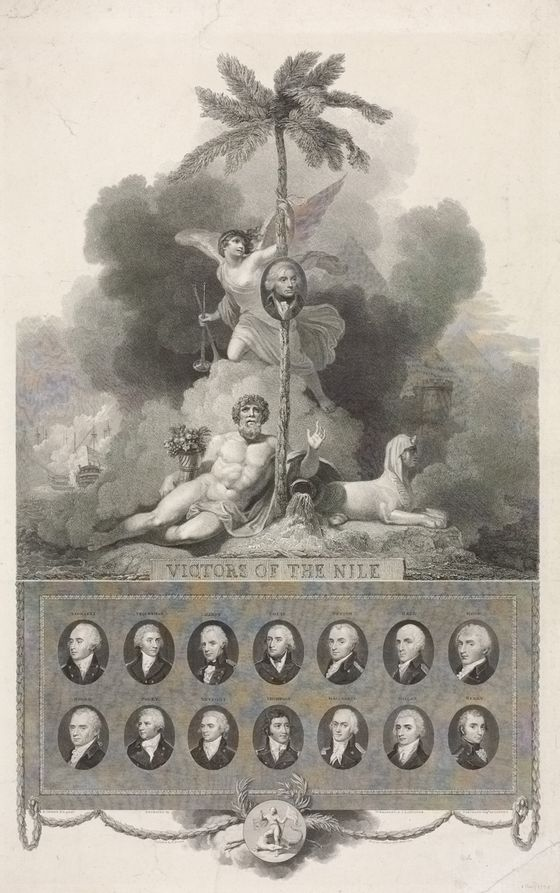 'Victors of the Nile', a celebratory engraving published five years after the Battle of the Nile, depicting Nelson and his 15 captains.